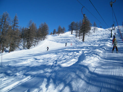 Pragelato ski area